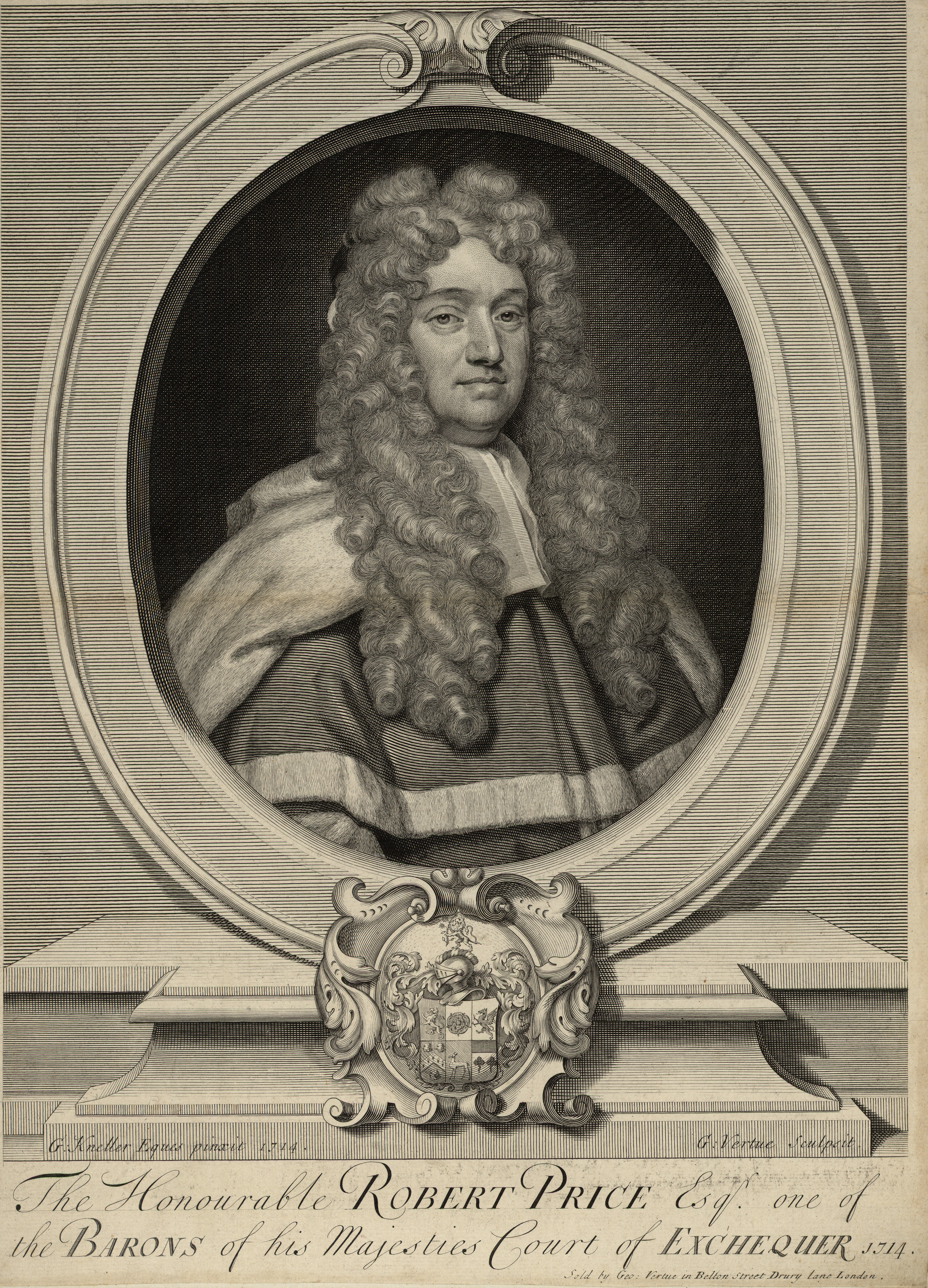 An image from a set of 8 extra-illustrated volumes of A tour in Wales by Thomas Pennant (1726-1798) that chronicle the three journeys he made through Wales between 1773 and 1776. These volumes are unique because they were compiled for Pennant's own library at Downing. This edition was produced in 1781. The volumes include a number of original drawings by Moses Griffiths, Ingleby and other well known artists of the period. Thomas Pennant (1726-1798)